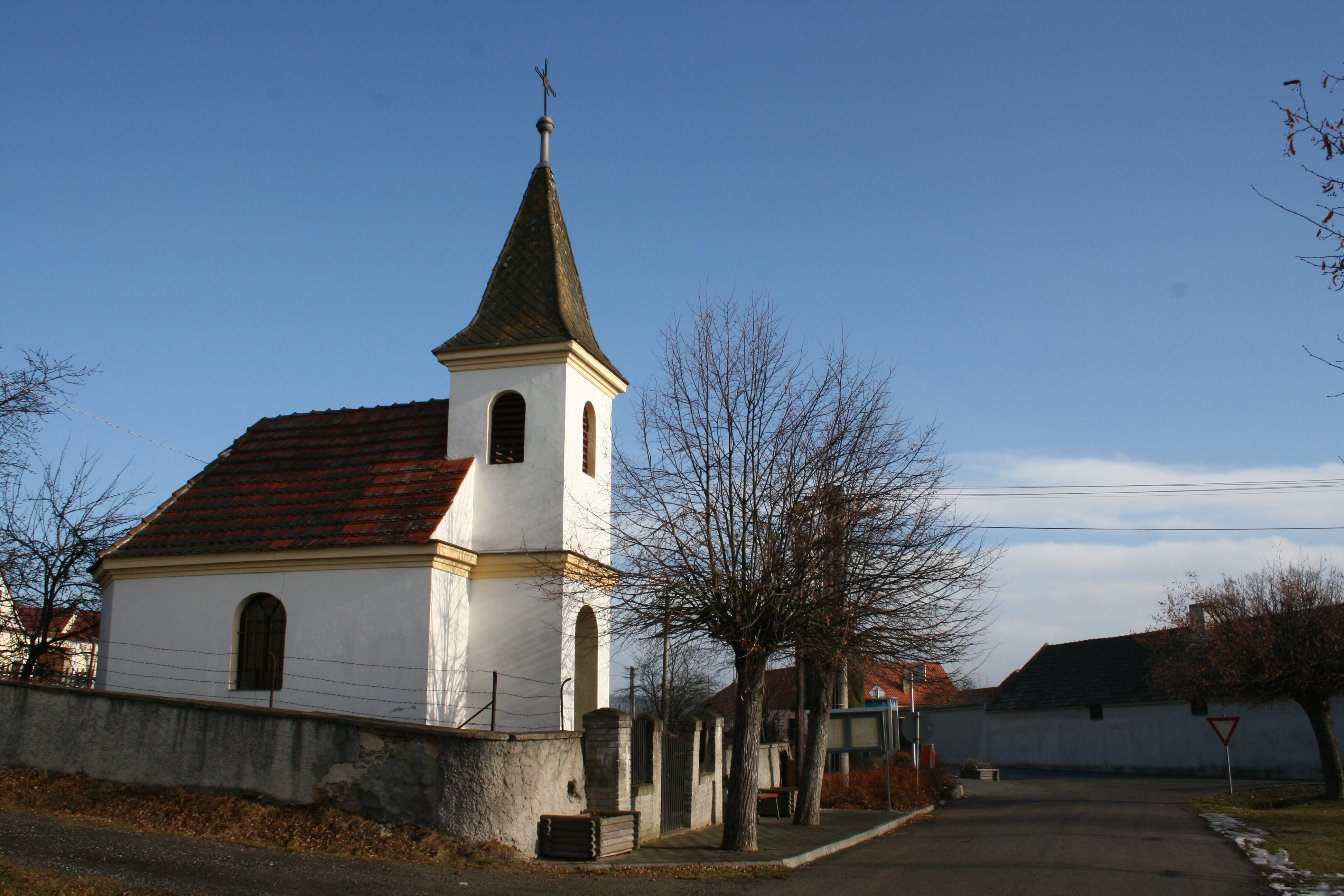 Bečice village in České Budějovice District, Czech Republic. Chapel of st. Vít.